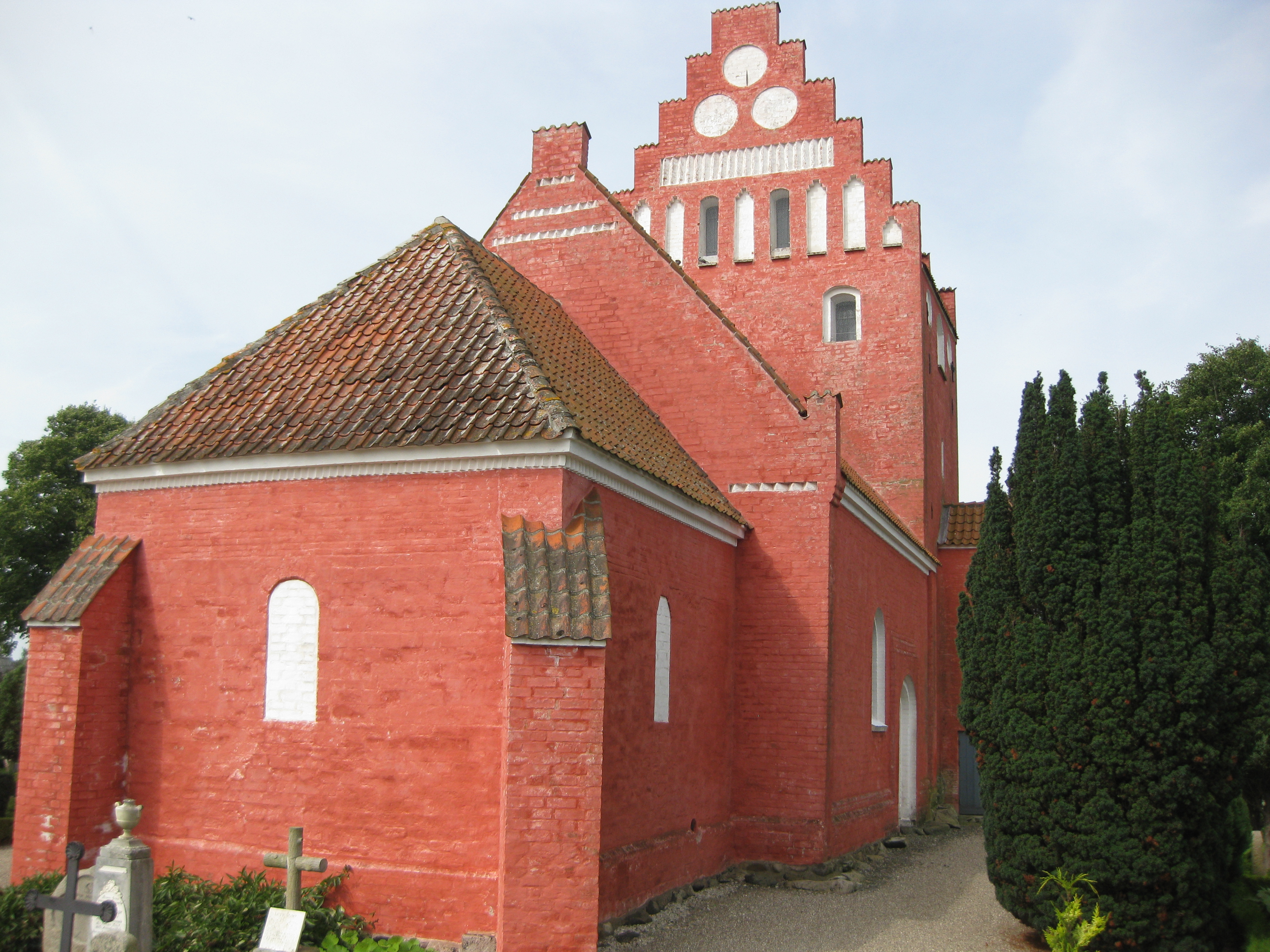 The church "Falkerslev Kirke" in the village "Falkerslev". The village is located on the island Falster in east Denmark.